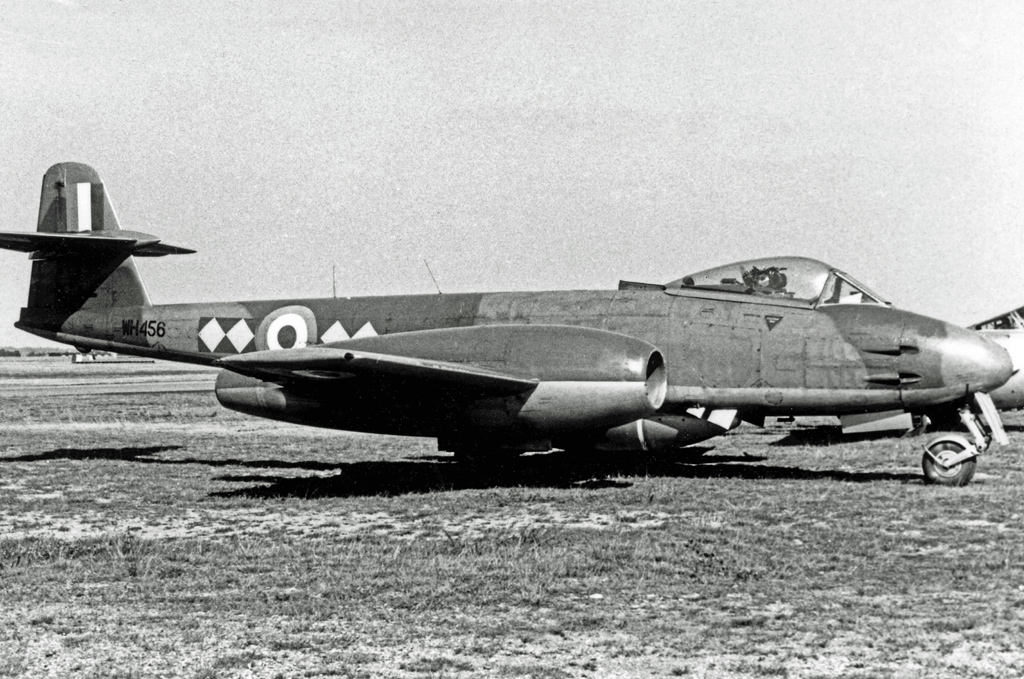 Gloster Meteor F.8 WH456 of 616 Squadron at Blackbushe airfield in 1955.